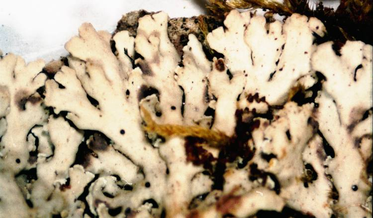 Heterodermia obscurata (Nyl.) Trevisan, 1869 (photograph of a herbarium specimen) Growing on trunk of an oak in moist deciduous forest along Gunpowder Falls, one half mile below Pretty Boy Dam, Baltimore County, Maryland, USA; collected and identified by A. Norden and B. Norden (No. L-131, 1 Apr 1974); specimen is now in the Lichen Herbarium of the New York Botanical Garden.